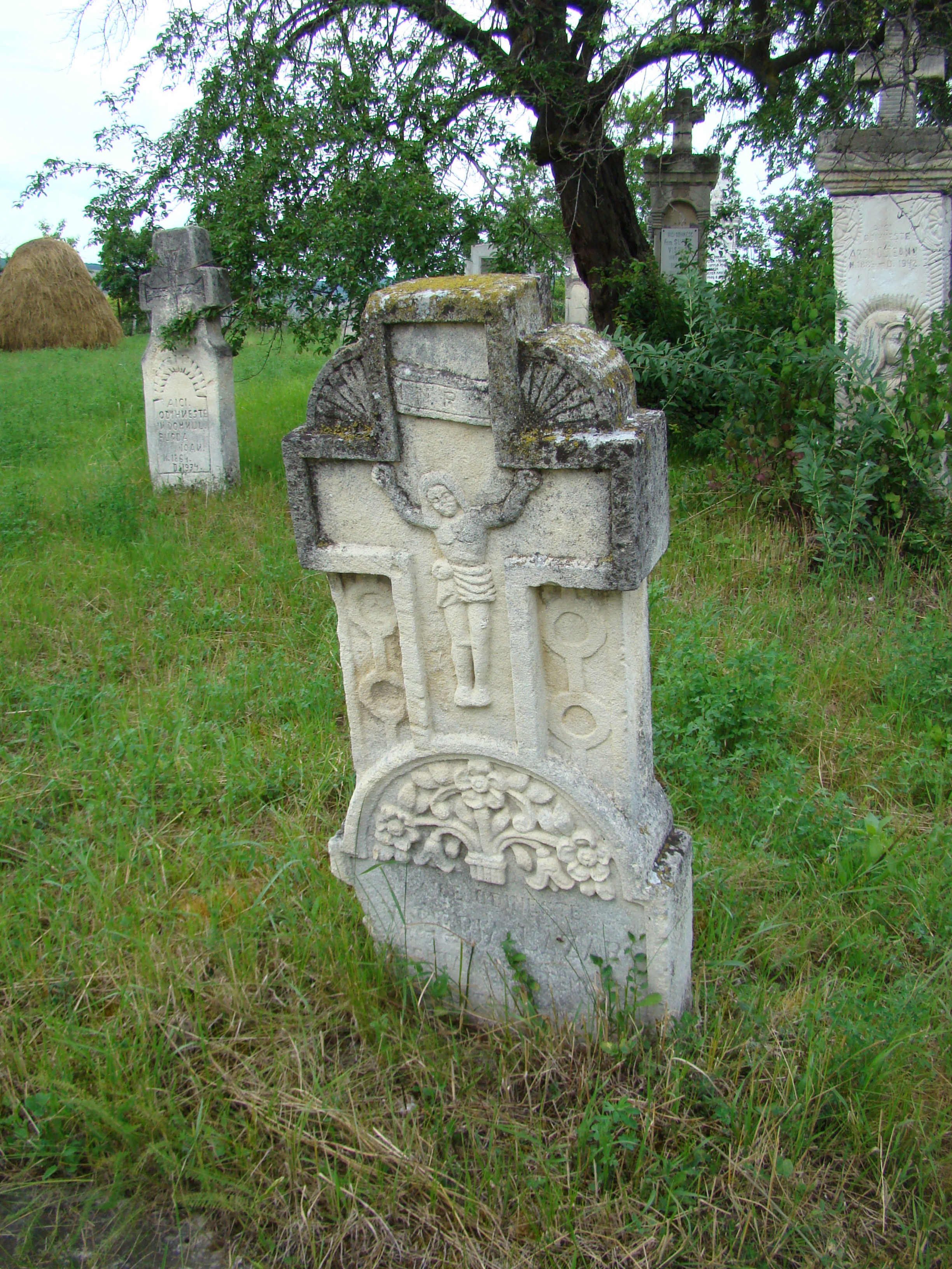 The cemetery of the wooden church in Sâncrai, Alba county, Romania